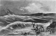 Drawing by a survivor of the wrecked steamship Northerner, on Centerville Beach, January 5, 1860 of the wreck and survivors on and arriving on the shore.